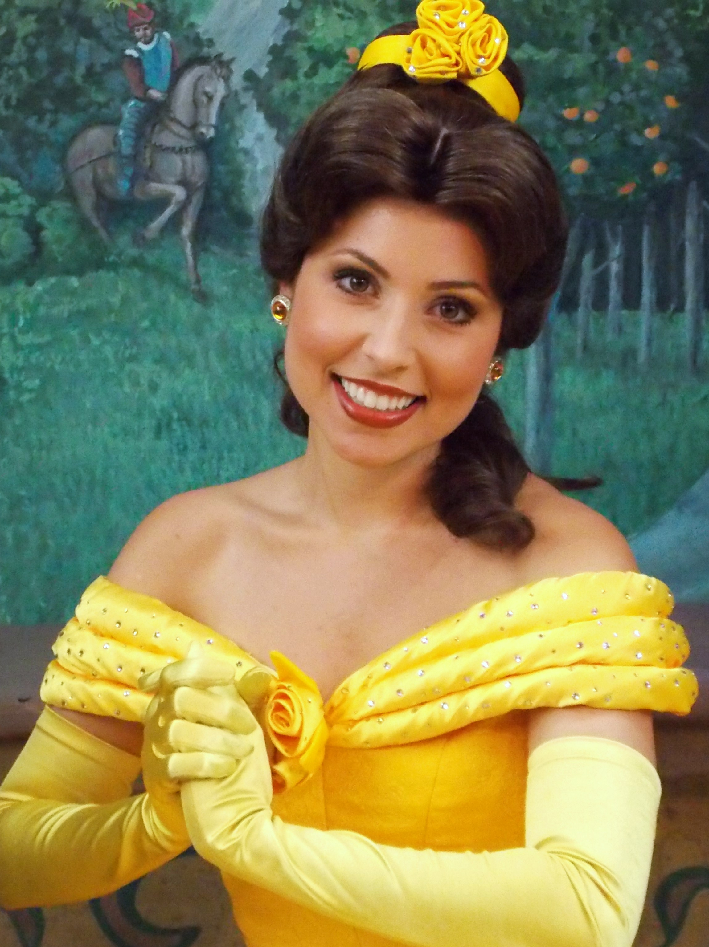 Belle at Disneyland.